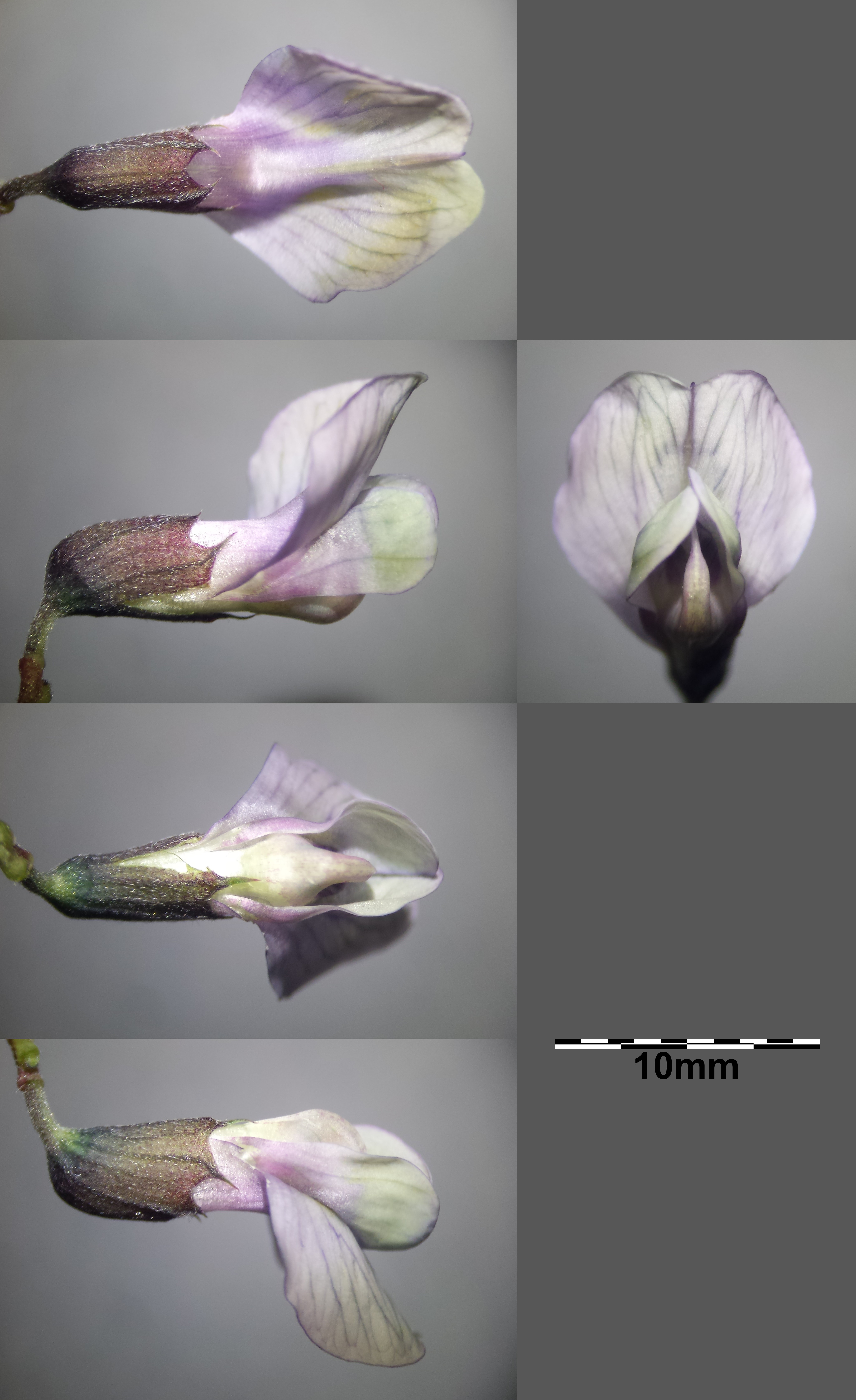 Flower Taxonym: Vicia sepium ss Fischer et al. EfÖLS 2008 ISBN 978-3-85474-187-9 Location: Rohrwald, district Korneuburg, Lower Austria - ca. 260 m a.s.l. Habitat: glade